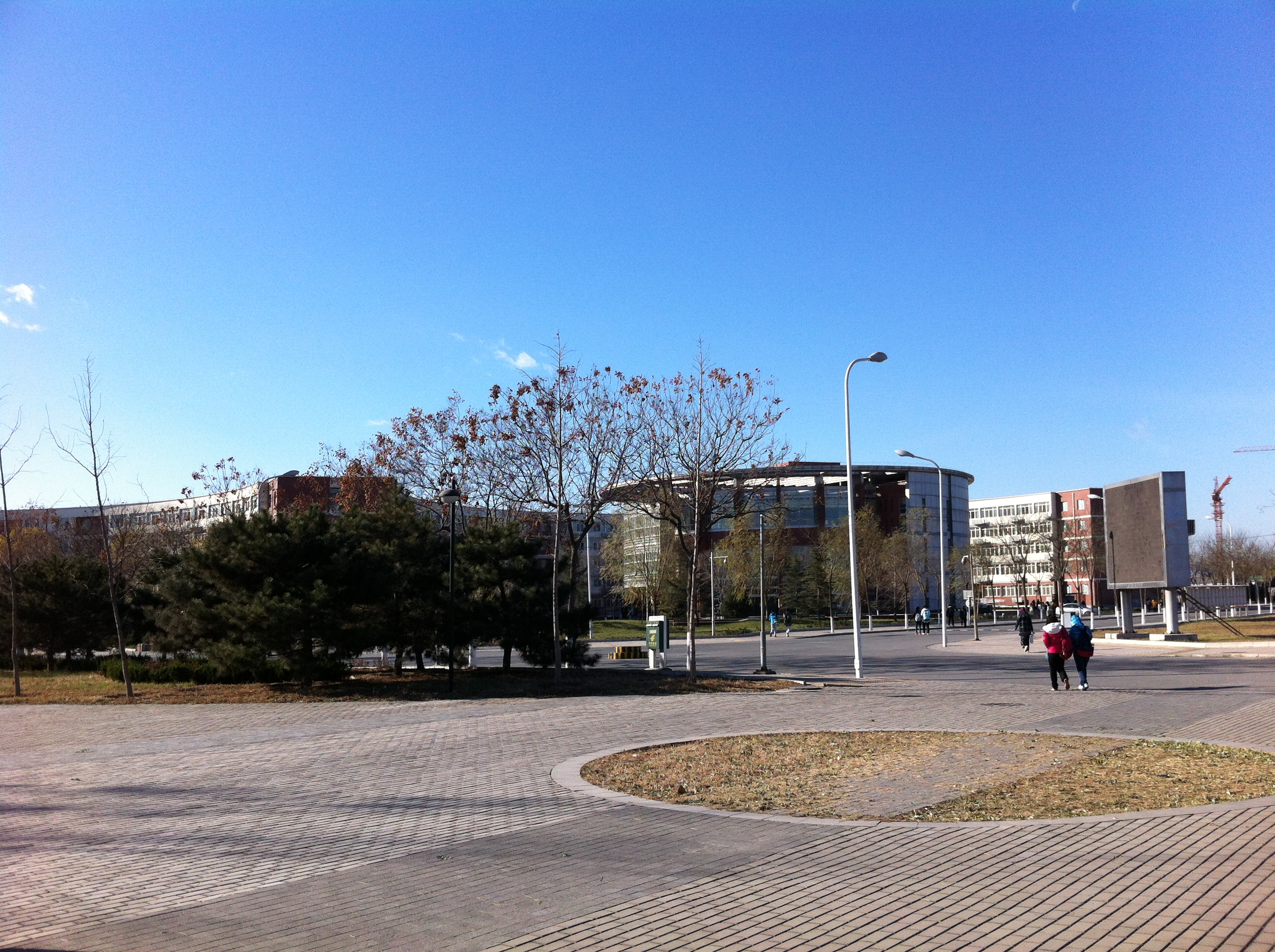 Liangxiang campus of Capital Normal University, where most freshmen of CNU spend one year.